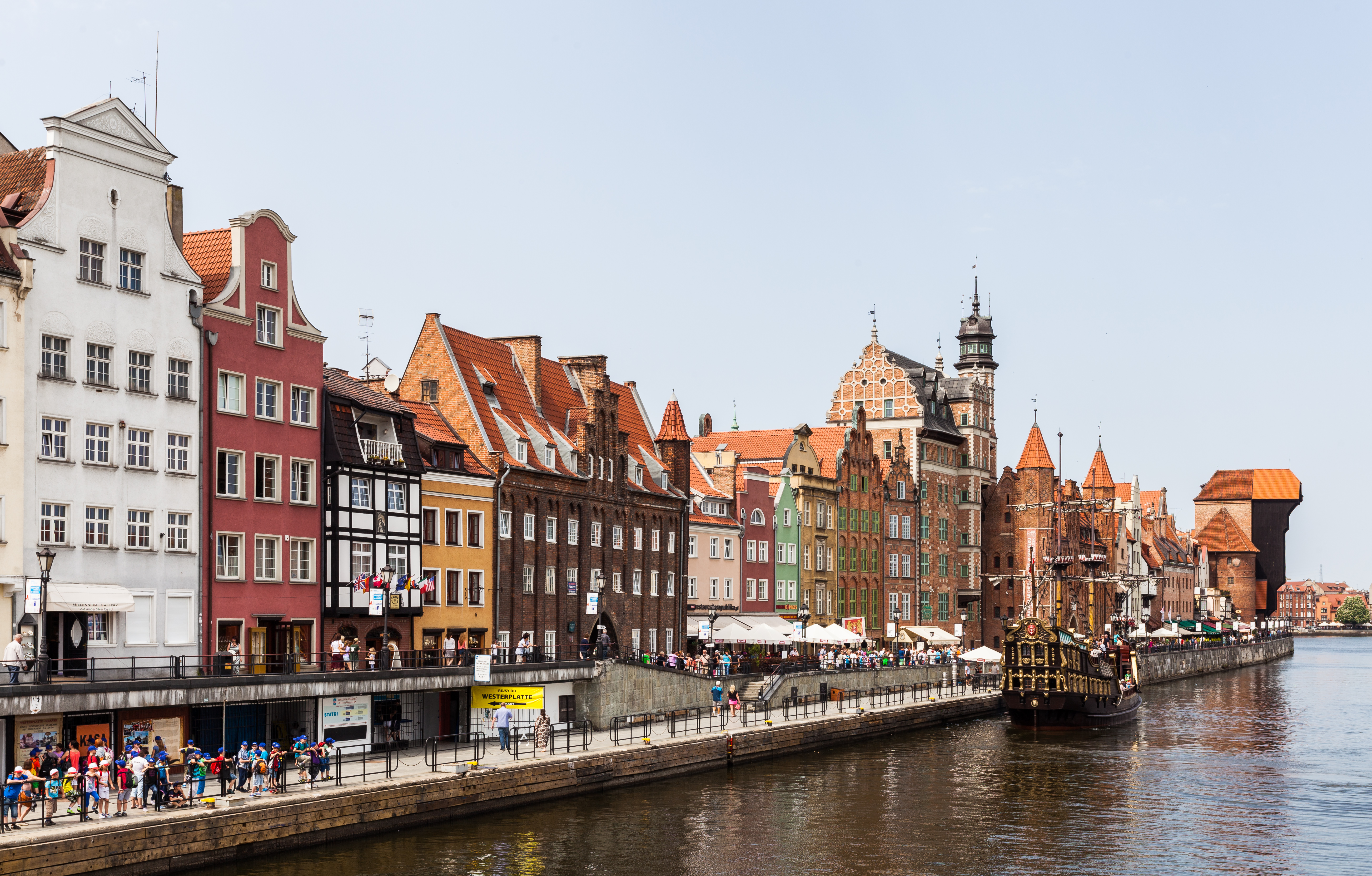 Dlugie Pobrzeze St., Gdansk, Poland Żuraw: 12.1959.